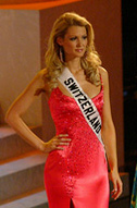 Five finalists at Miss Universe'06